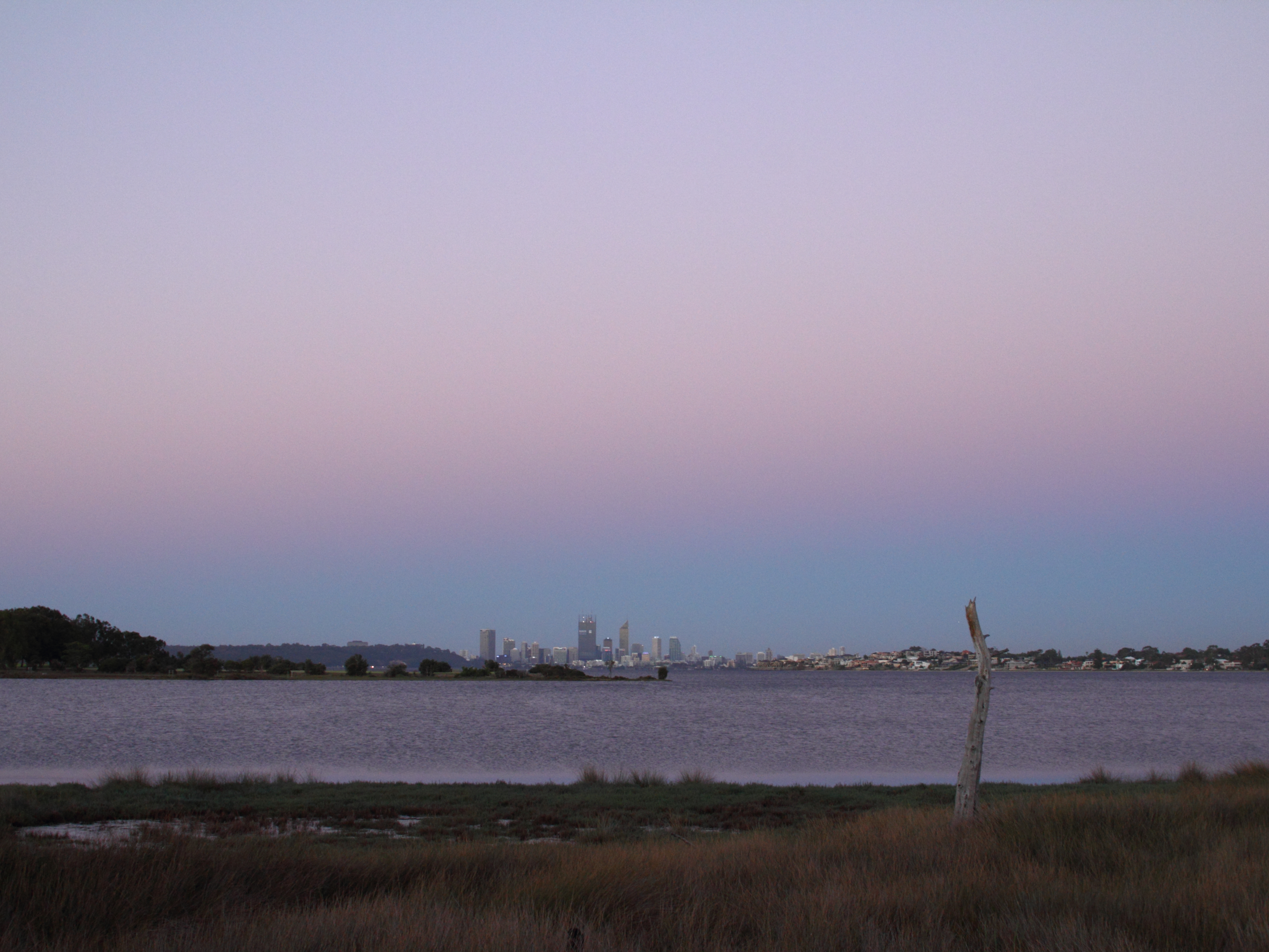 Swan River at dawn, Western Australia